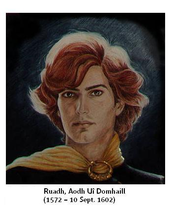 Ruadh (Rouquin) Aodh Uî Domhaill